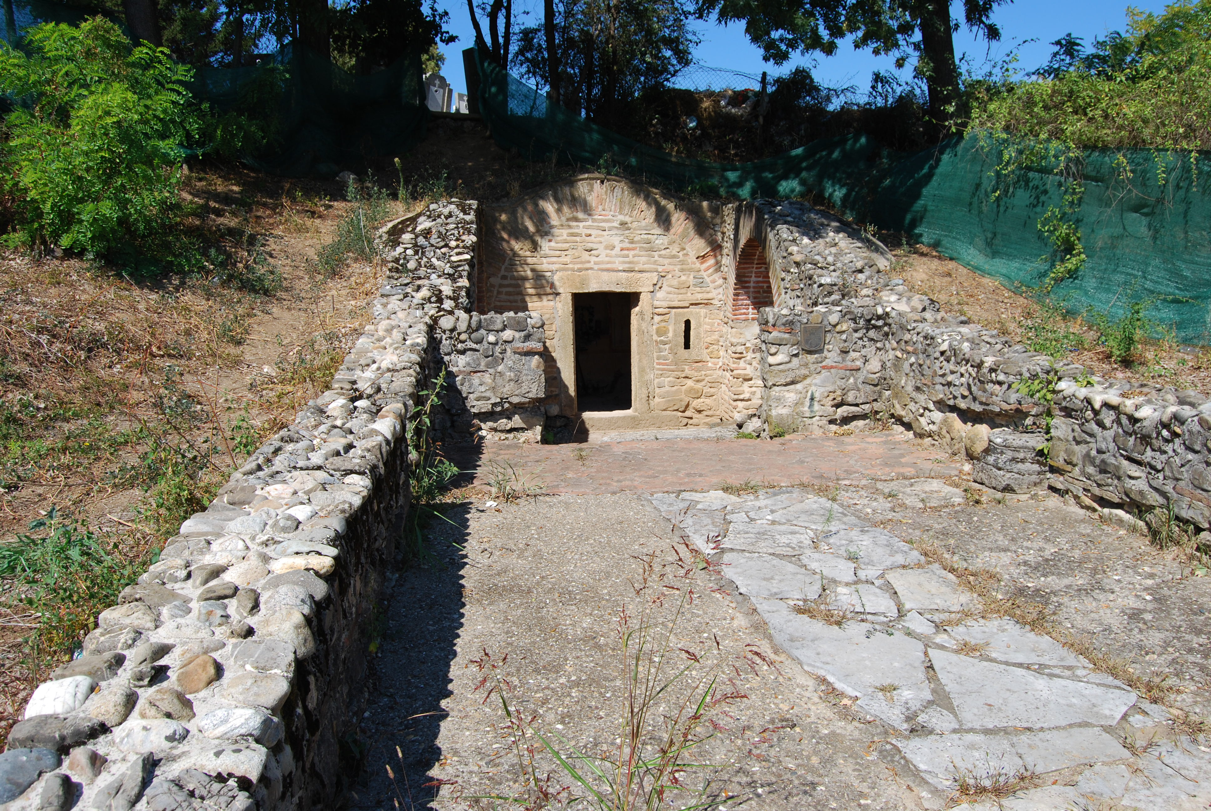 Roman tomb in Brestovik, near Grocka- general look